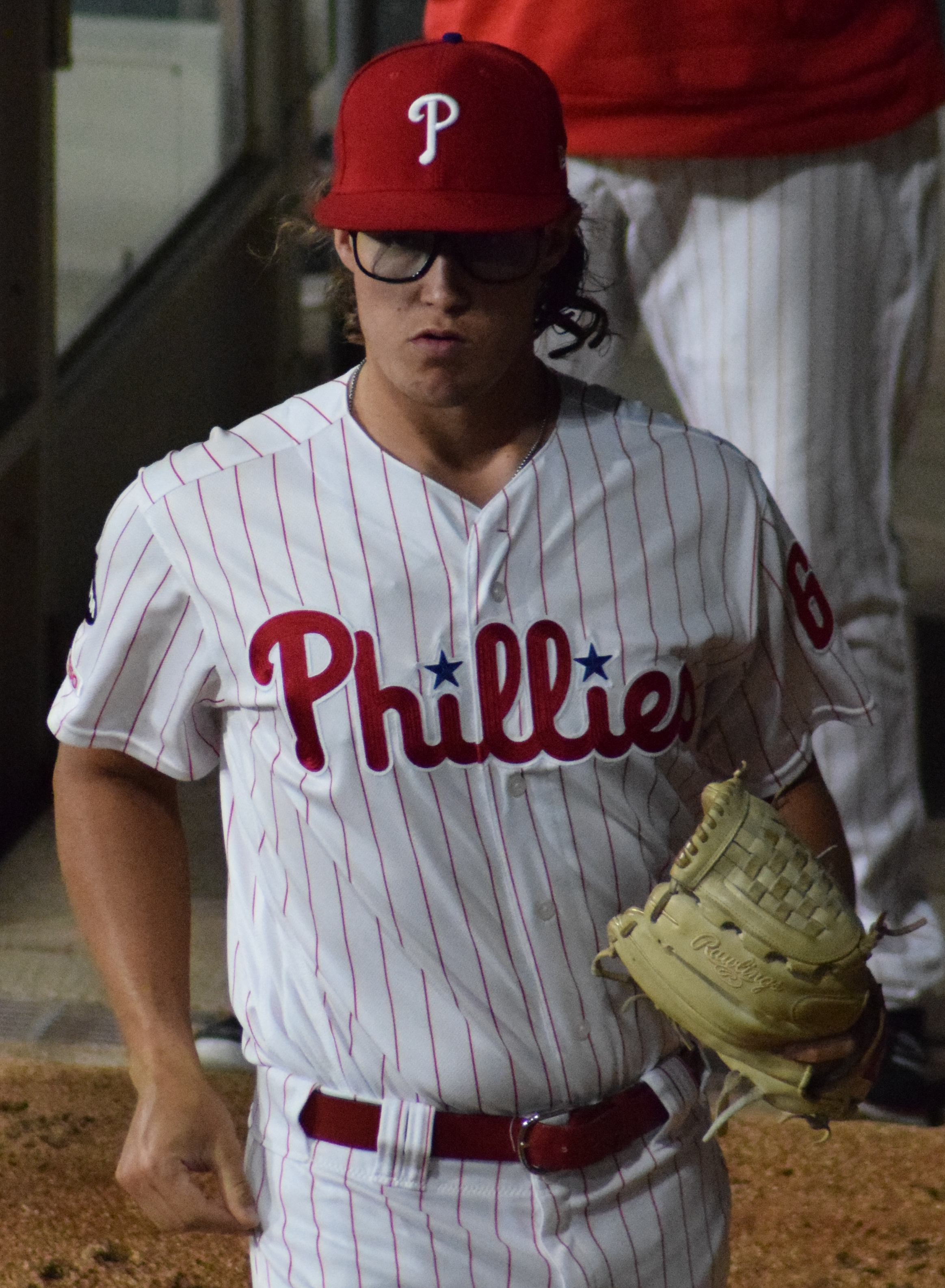 J.D. Hammer of the Philadelphia Phillies in the bullpen at Citizens Bank Park in 2019